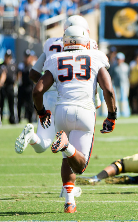 UCLA defeated Virginia 34-16 in their college football season opener at the Rose Bowl, Pasadena